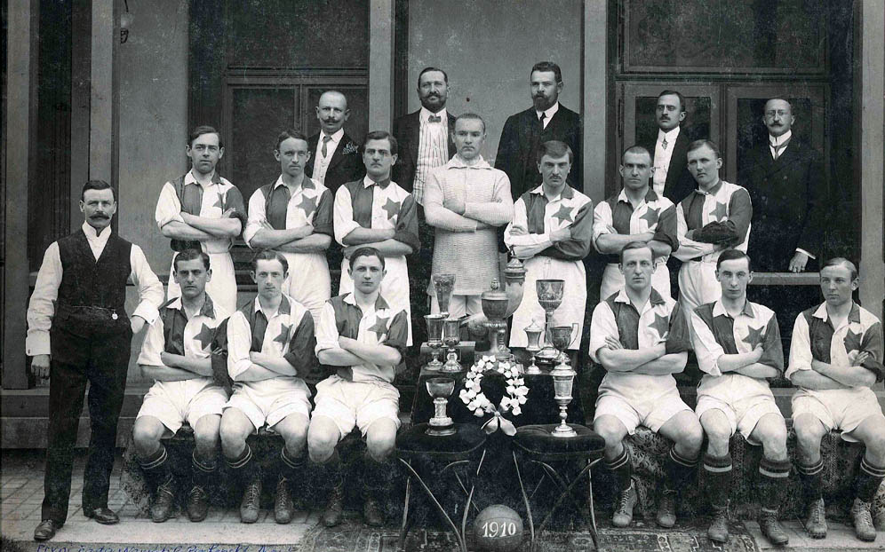 Football club Slavia in 1910. Upper row: Navrátil, Kruliš, Nový, Vosátka, Kamenický. Middle row: Macoun, Rozmeisl, Krumer, Pulchert, Ríša Veselý, Kotouč, Holý. Lower row: J. W. Madden, Široký, Medek, E. Benda, Košek, Jenny-Starý, O. Bohata.